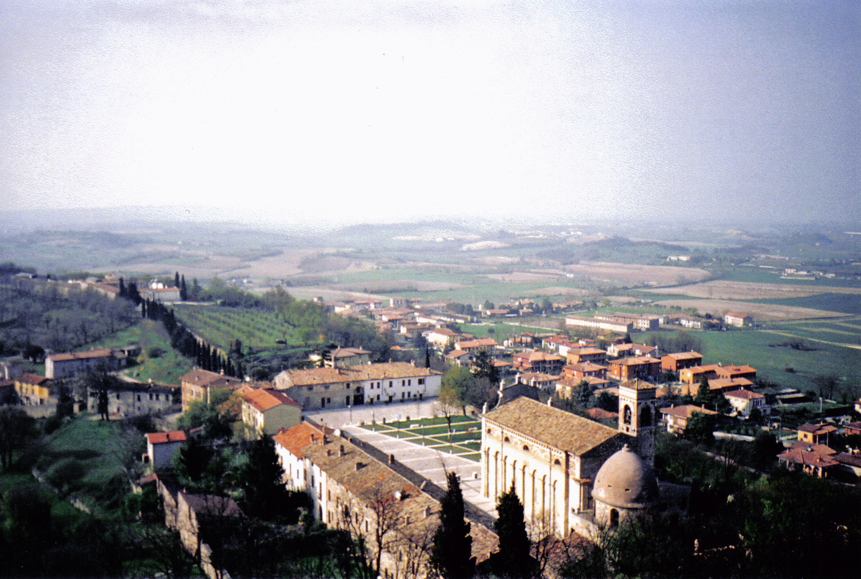 The city of Solferino, Italy, birthplace of the Red Cross Source: picture taken by User:UW in April 2005 License